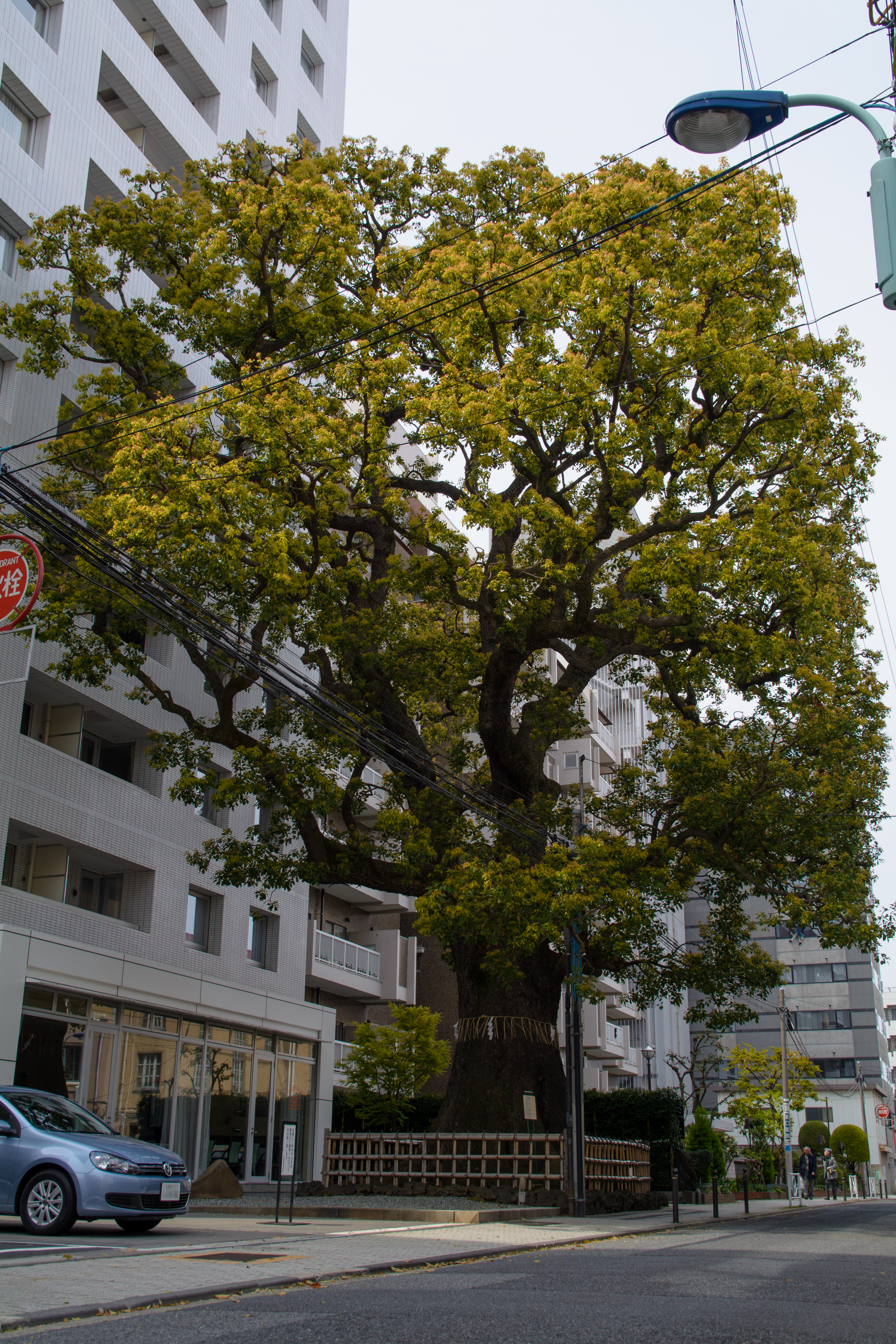 Camphor tree in Hongō, Tokyo